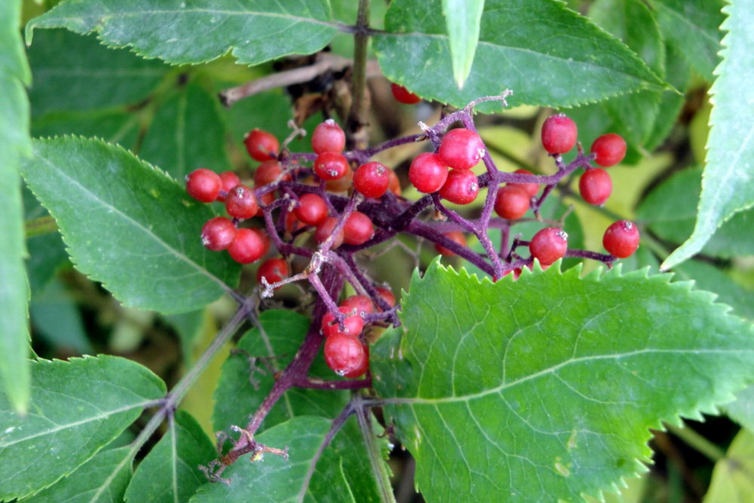 Sambucus tigranii